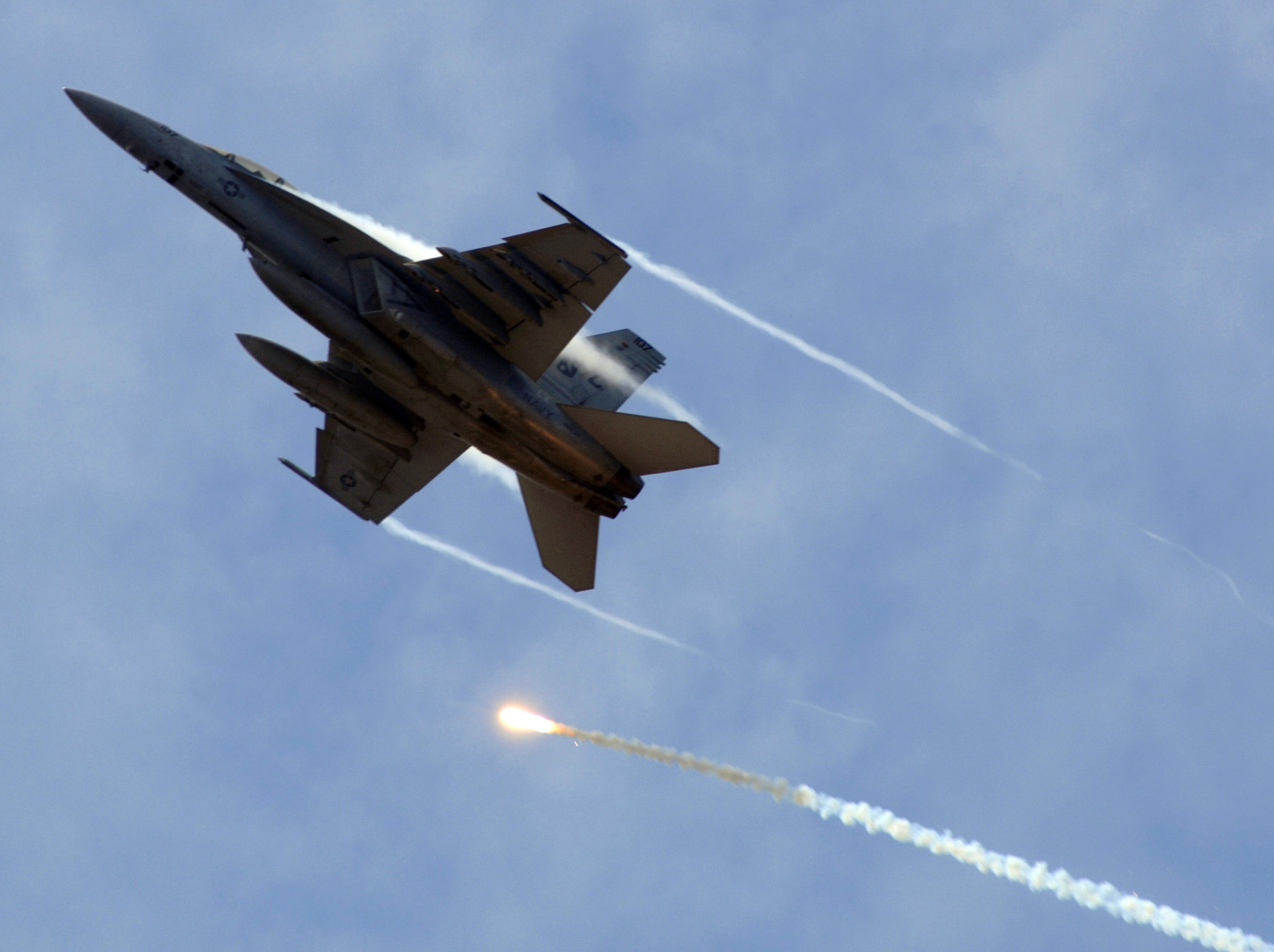 F/A-18F Super Hornet: An F/A-18F Super Hornet aircraft from the "Red Rippers" of Strike Fighter Squadron Eleven fires off its flares while performing evasive maneuvers during an air power demonstration above USS Harry S. Truman (CVN 75) April 6, 2007. Truman is under way in the Atlantic Ocean conducting tailored ship's training availability.